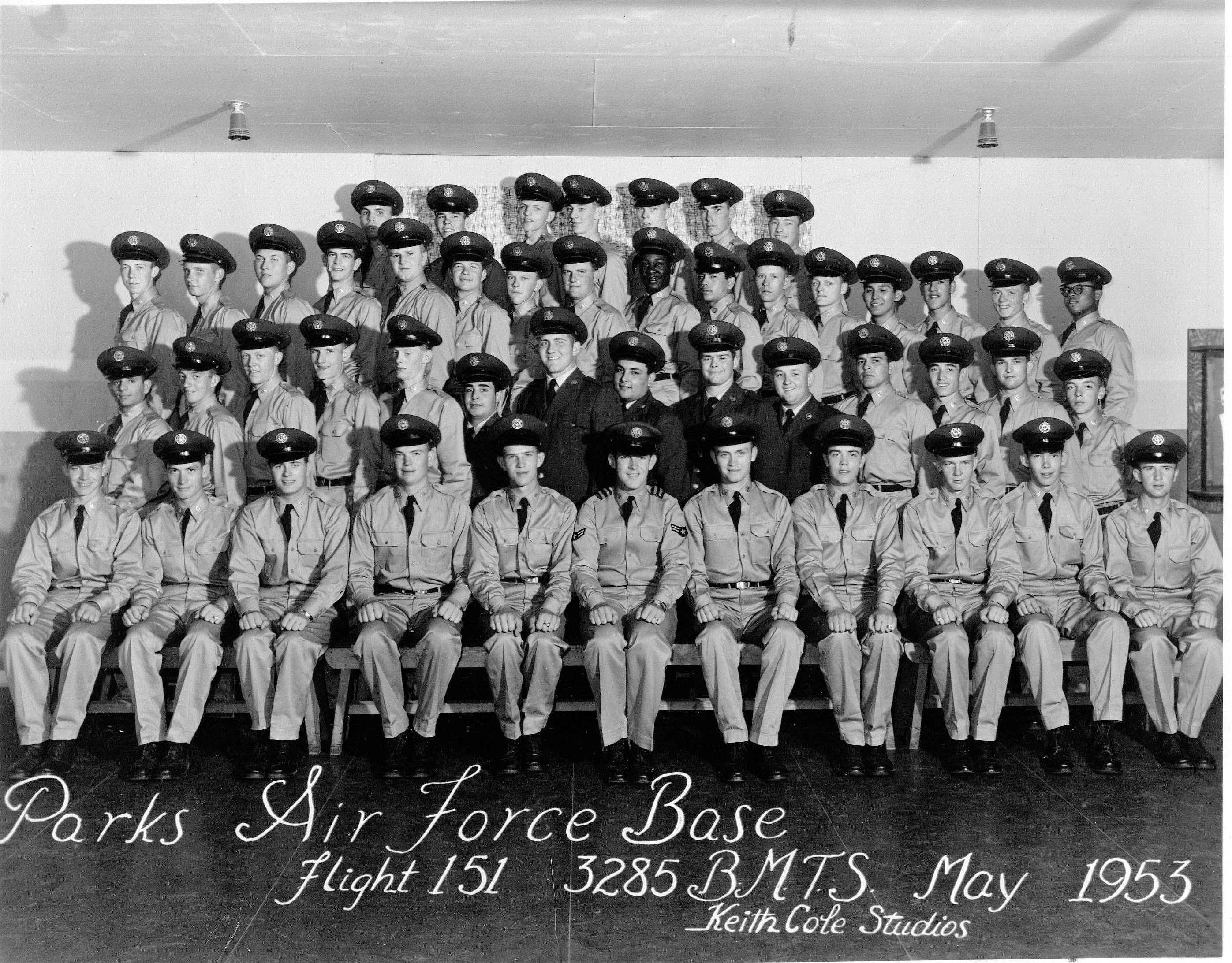 USAF BMT FLT 151 3285 BMTS Parks AFB May 5